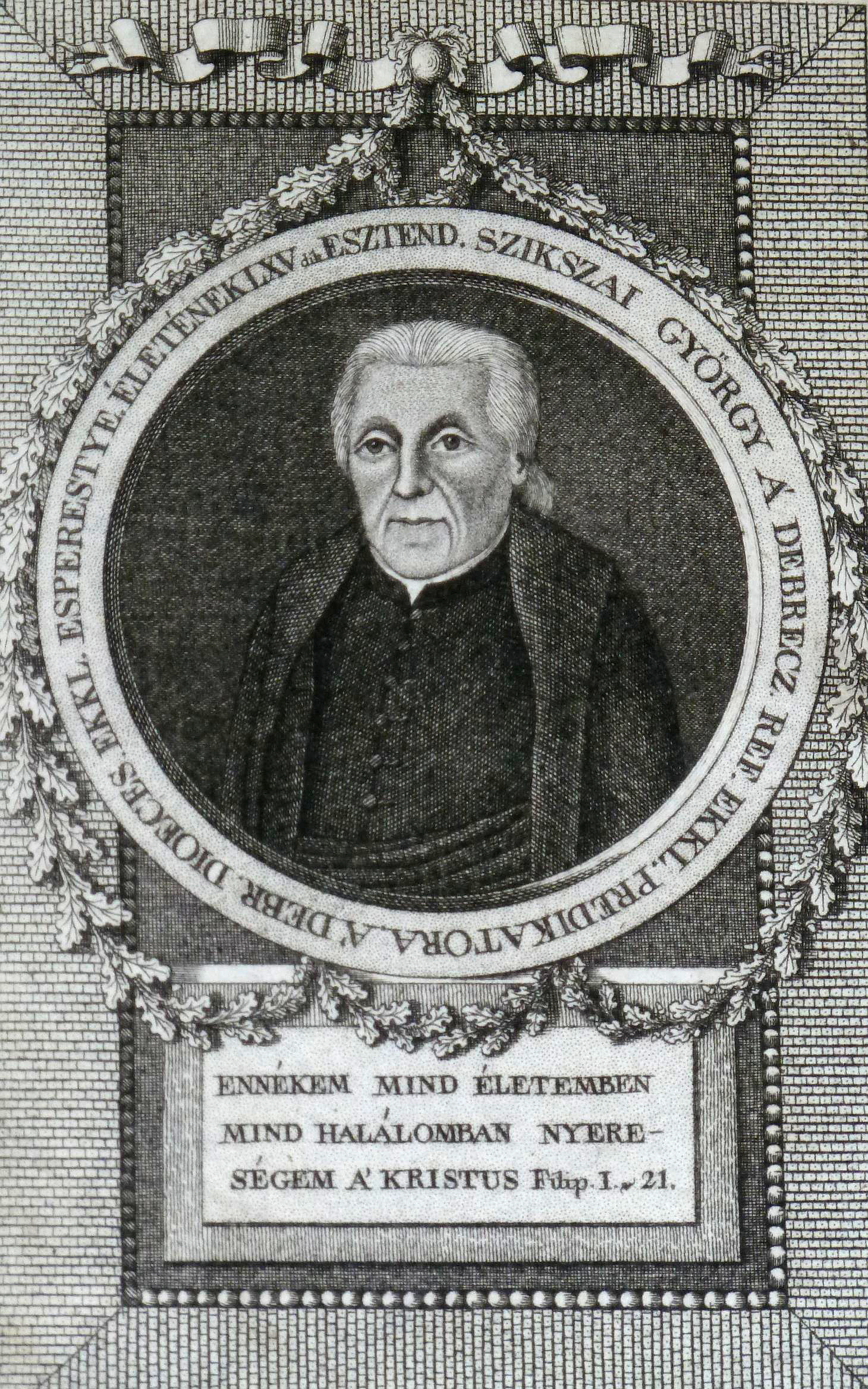 Portrait of György Szikszay, dean of Debrecen